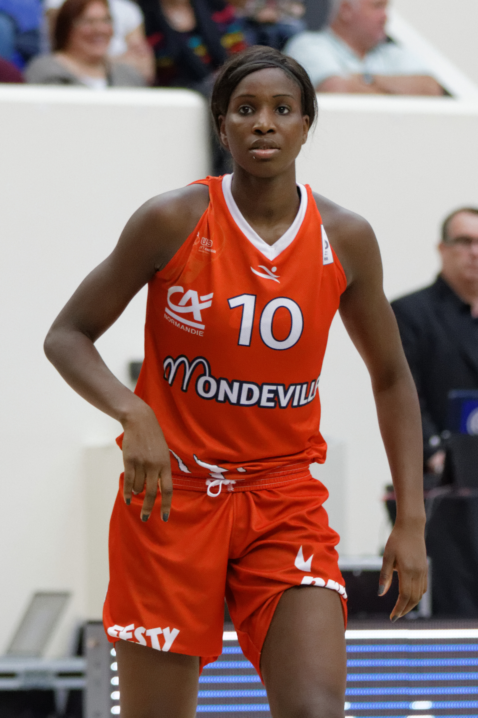 Open LFB, Toulouse-Mondeville, October 5th, 2013.